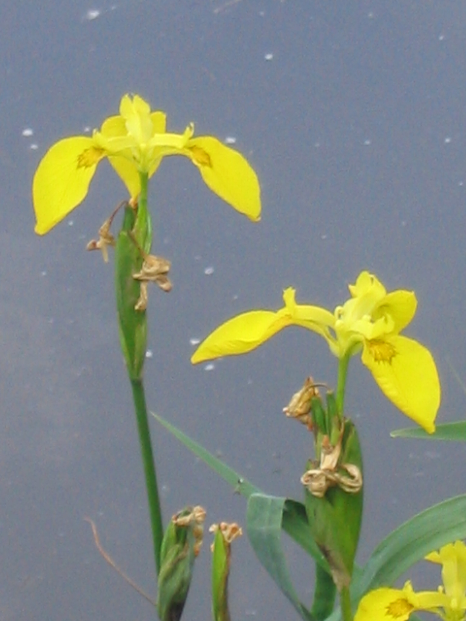 at the river Nidda in Frankfurt am Main, Germany